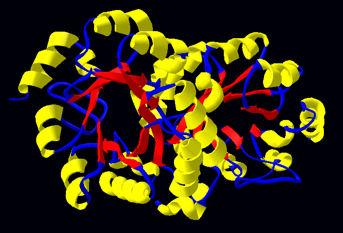 OMP decarboxylase